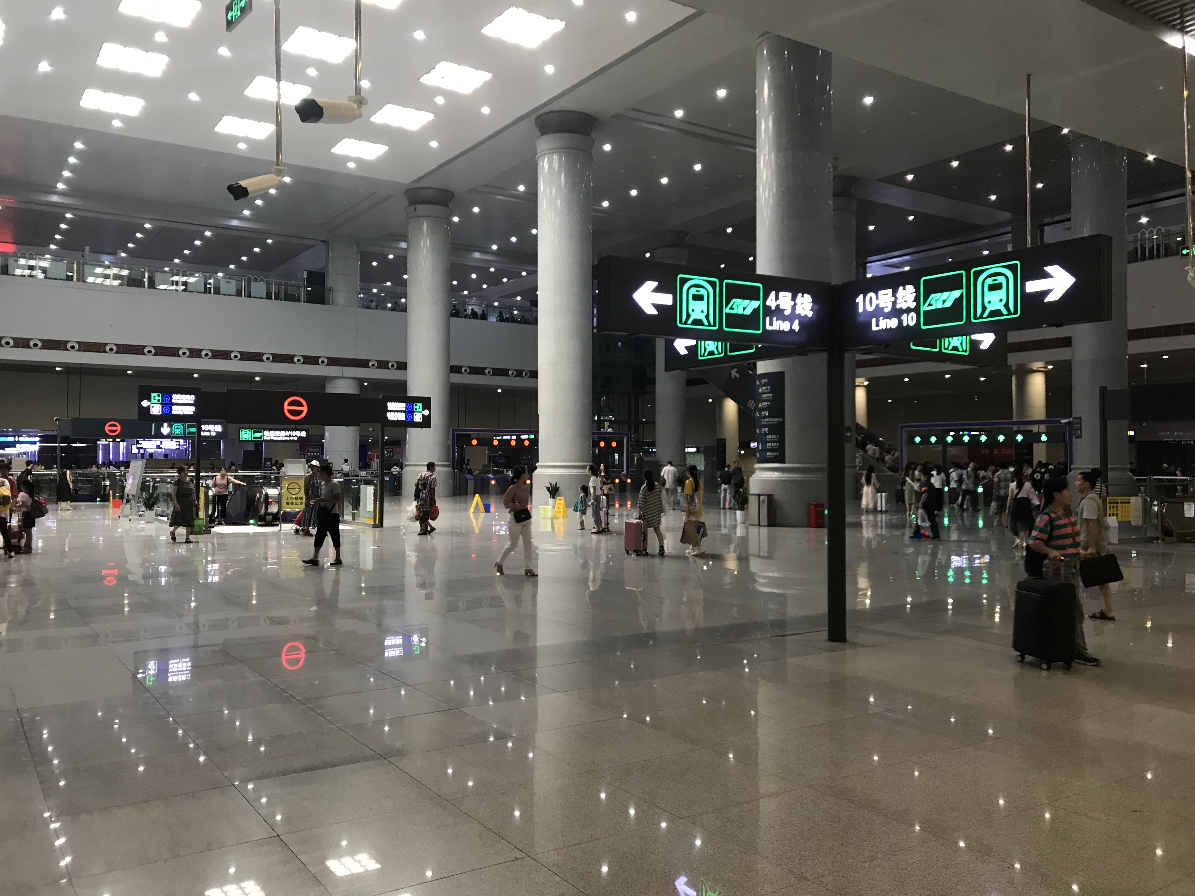 Surprisingly High-ceiling